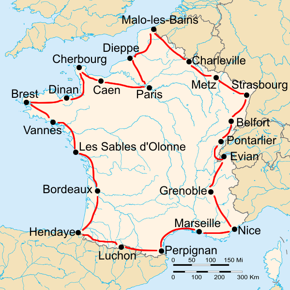 Route of the 1928 Tour de France, starting and finishing in Paris.